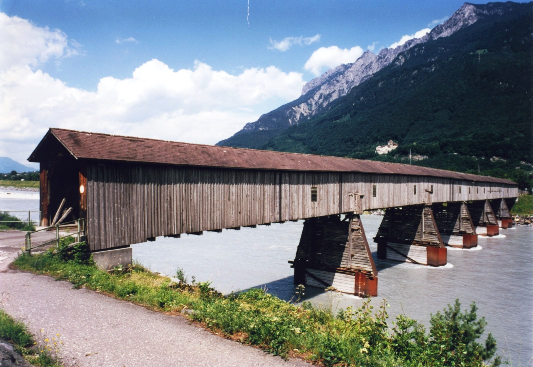 Old Rhinebridge between Vaduz, Liechtenstein and Sevelen, Switzerland